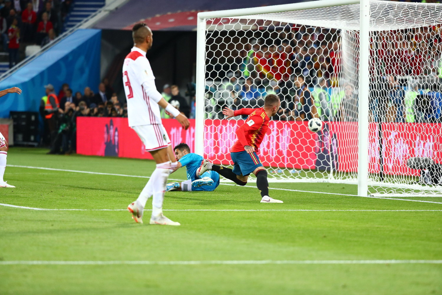 Spain-Morocco match, Group B, 2018 FIFA World Cup